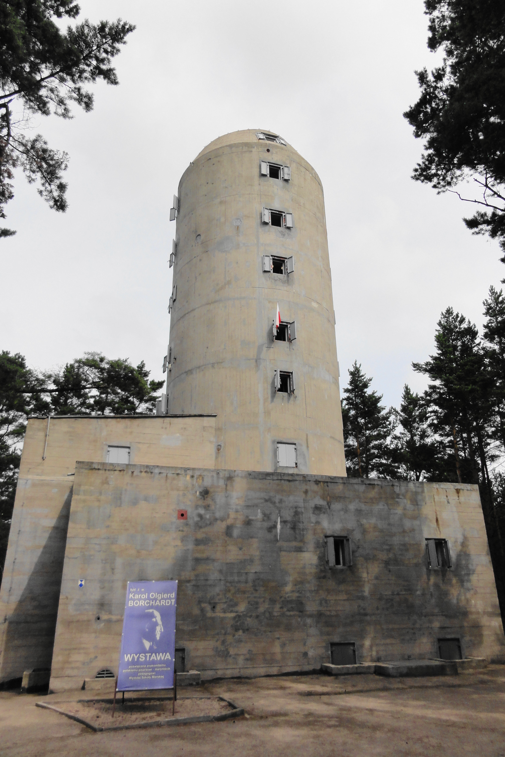 Hel, Schleswig-Holstein battery - Fire control tower